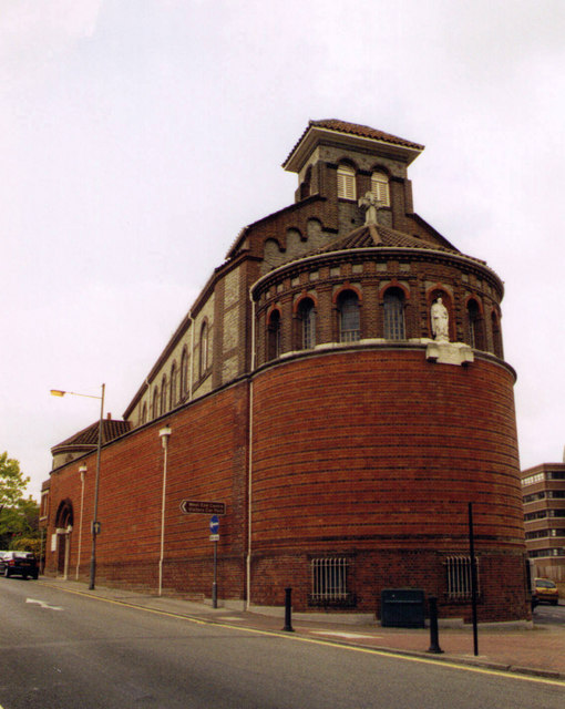 St Joseph, Aldershot Grade 2 listed building erected in 1912.